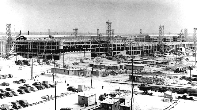 Northwest exposure of the Pentagon's construction underway. Photo taken: July 1, 1942.